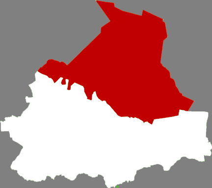 Location of Jinchuan district in Jinchang city, China